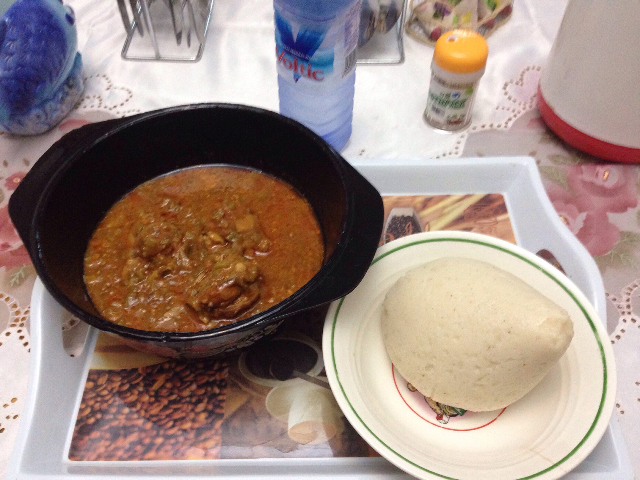 Banku and Okra Soup This is an image of food from Ghana